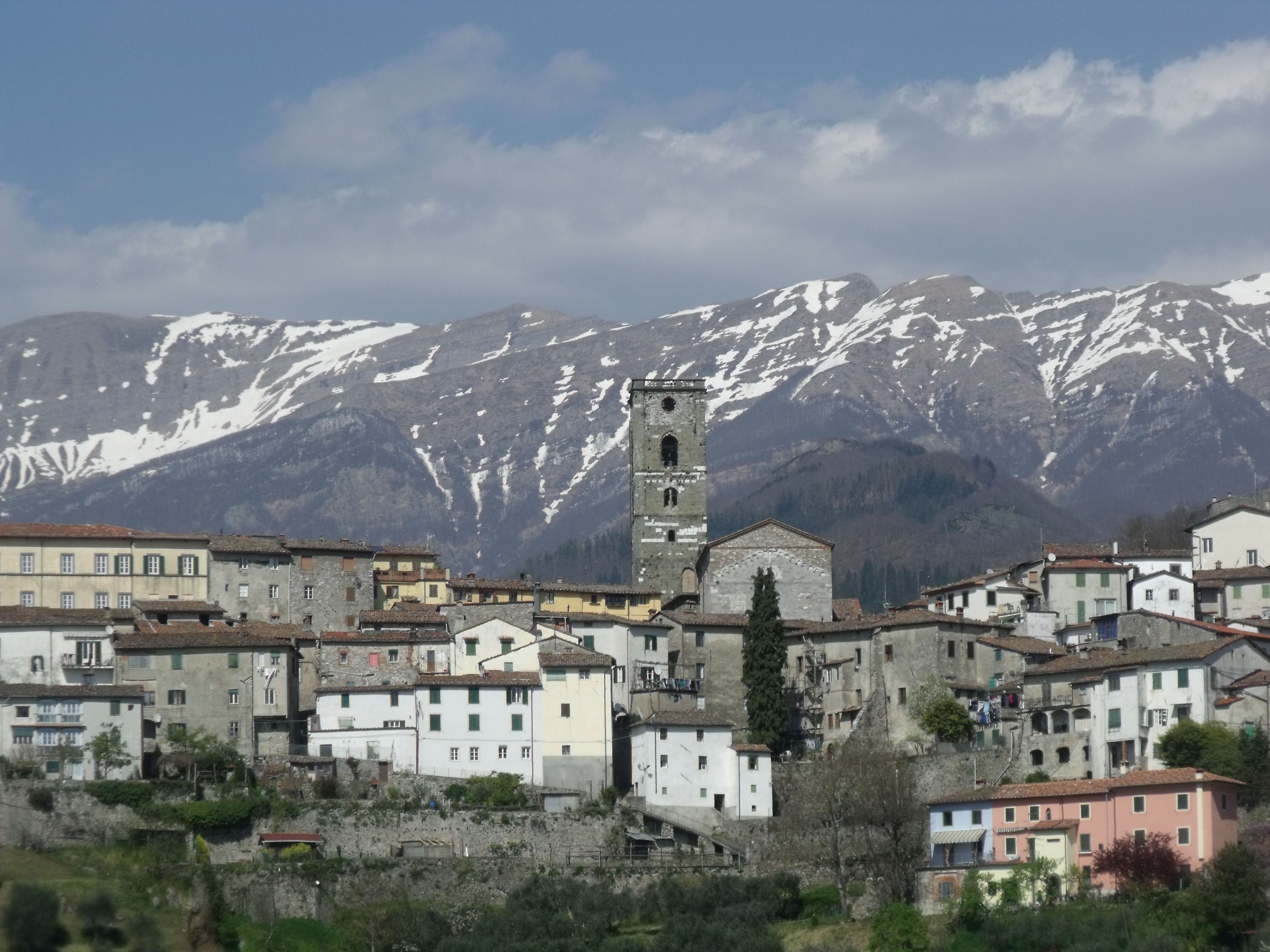 Panorama of Coreglia Antelminelli, Garfagnana, Province of Lucca, Tuscany, Italy